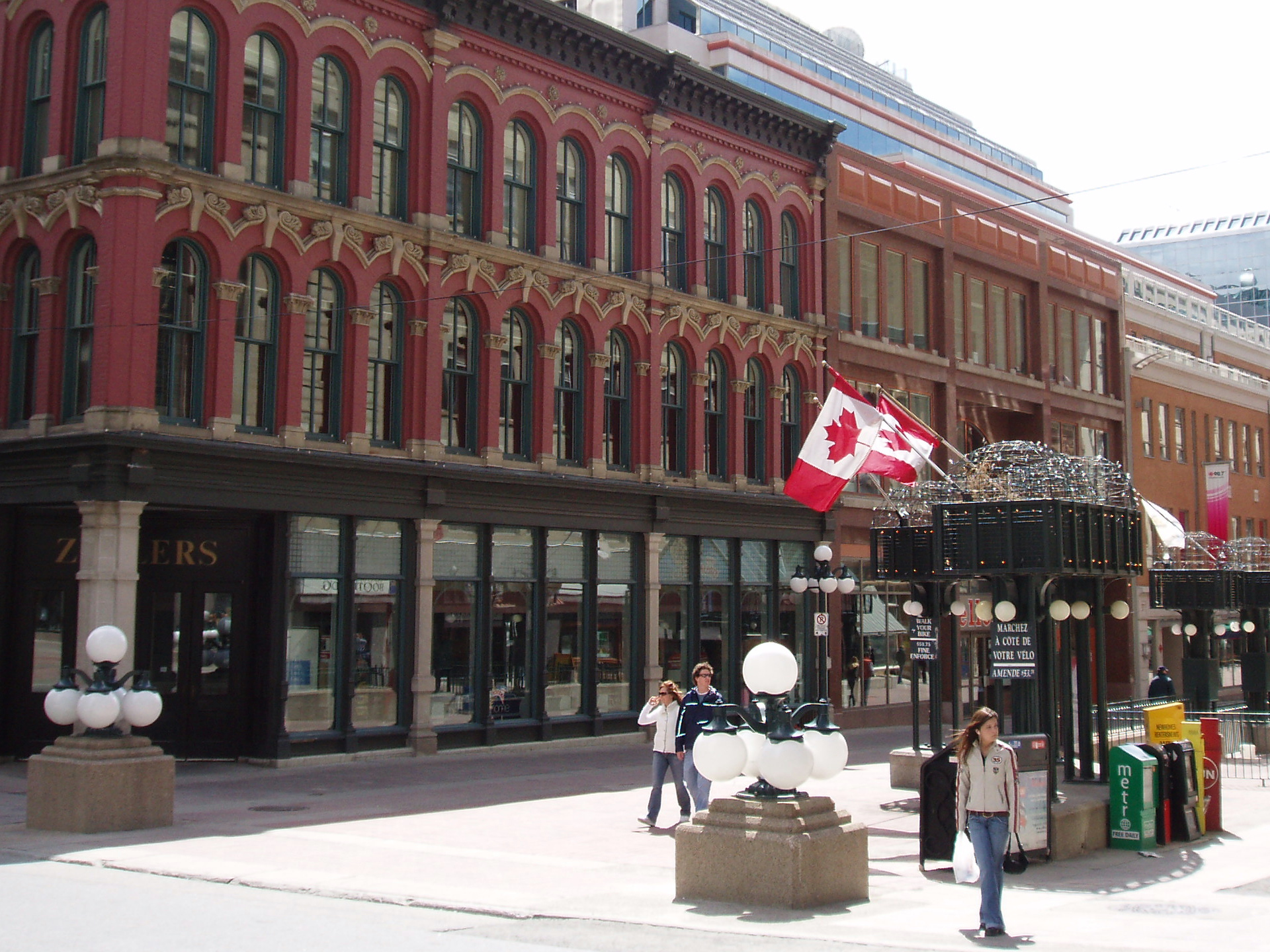 Left : (Former) Poulin Dry Goods Store, 156 Sparks Street / O'Connor Street, Ottawa